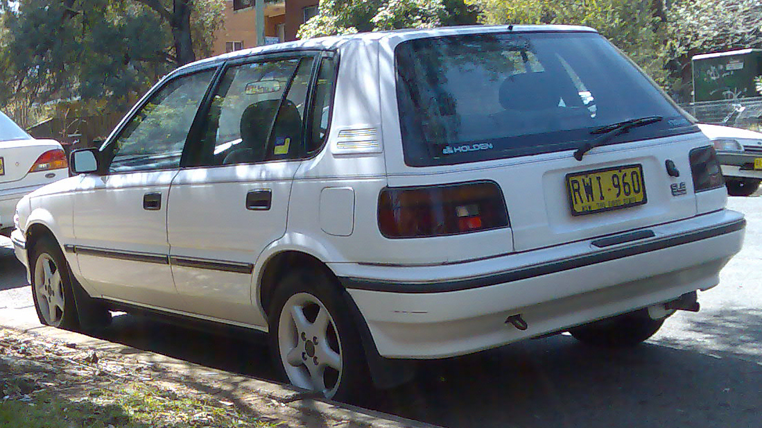 1989–1991 Holden LE Nova SLE hatchback. Photographed in Gymea, New South Wales, Australia.